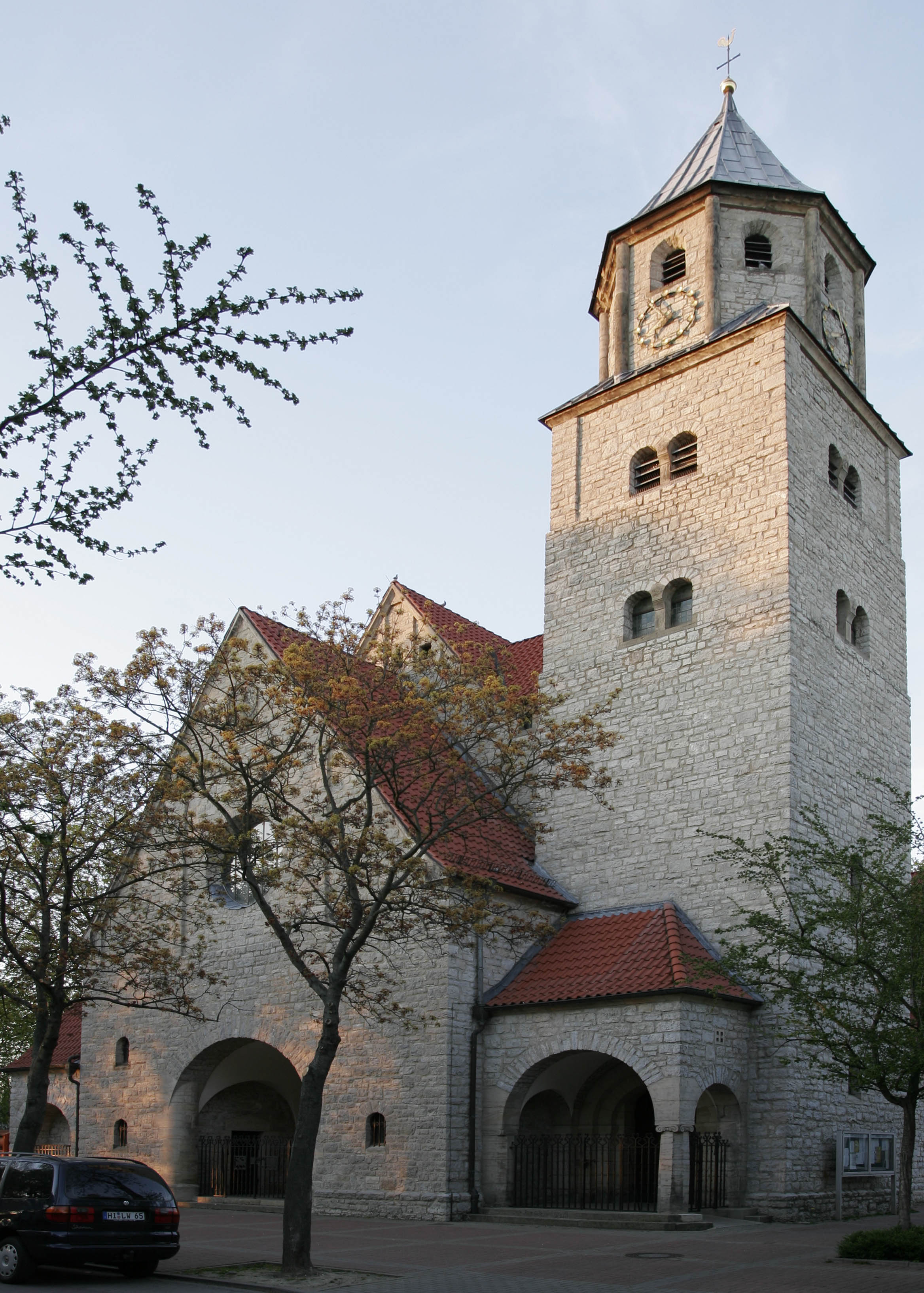 Heilig Geist Church of Sarstedt (Germany)